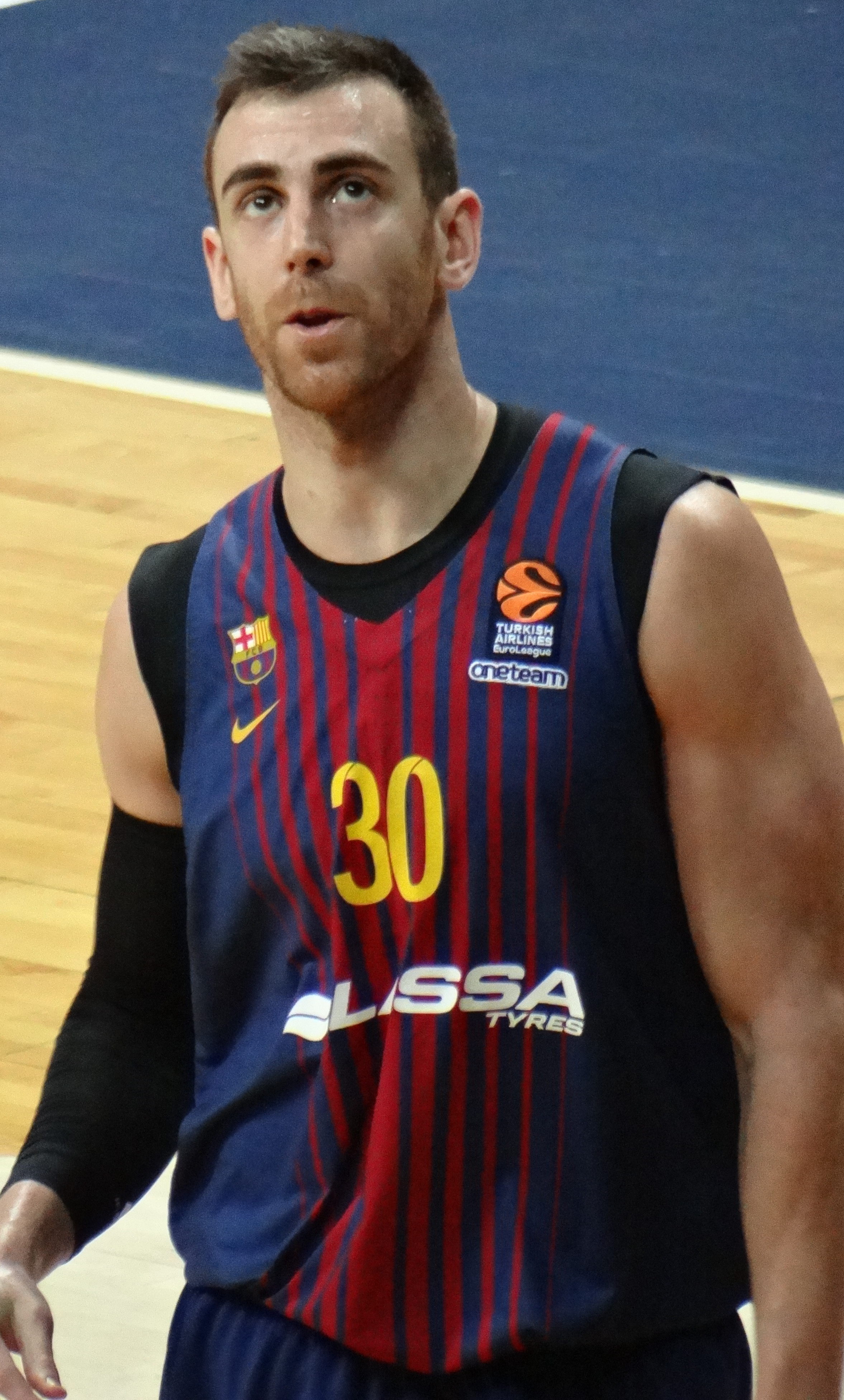 Victor Claver 30 FC Barcelona Bàsquet 20180126